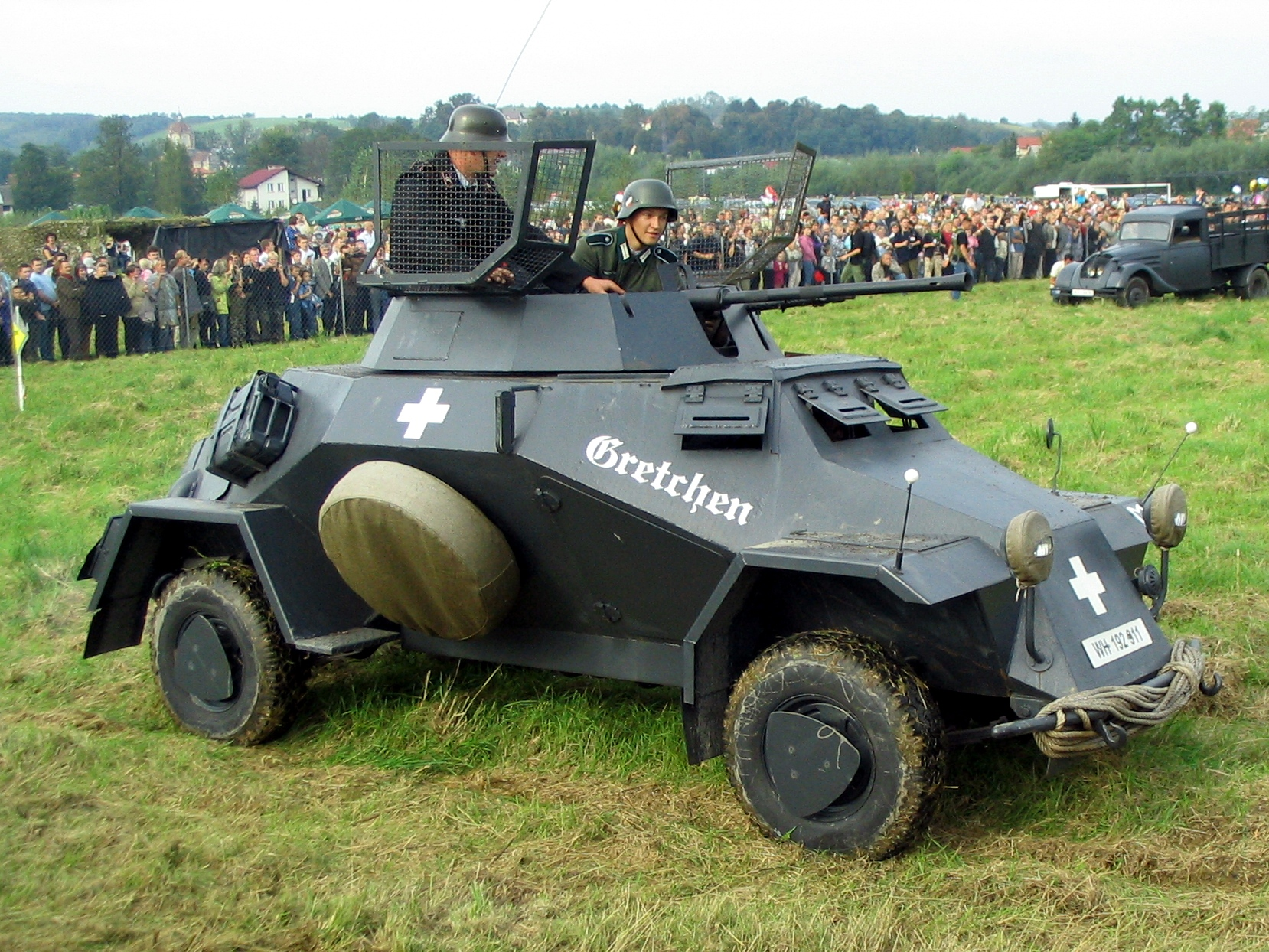 Reconstruction of Leichter Panzerspahwagen Sd.Kfz.222